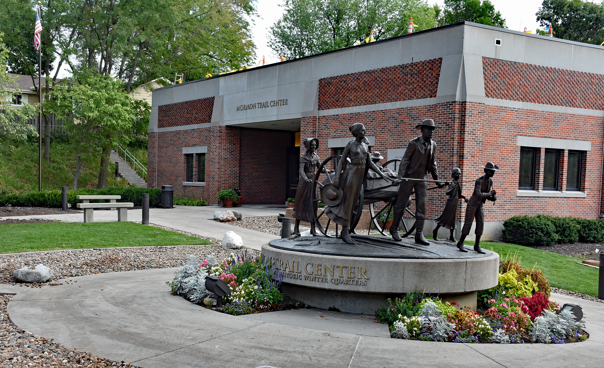 The front entrance of the Mormon Trail Center at Historic Winter Quarters, in Florence (North Omaha), Nebraska, United States. Franz M. Johansen's handcart statue can also be seen in the photograph. When the photo was taken there was some maintenance work being performed on the building's roof, hence the colored flags and construction equipment partially visible.